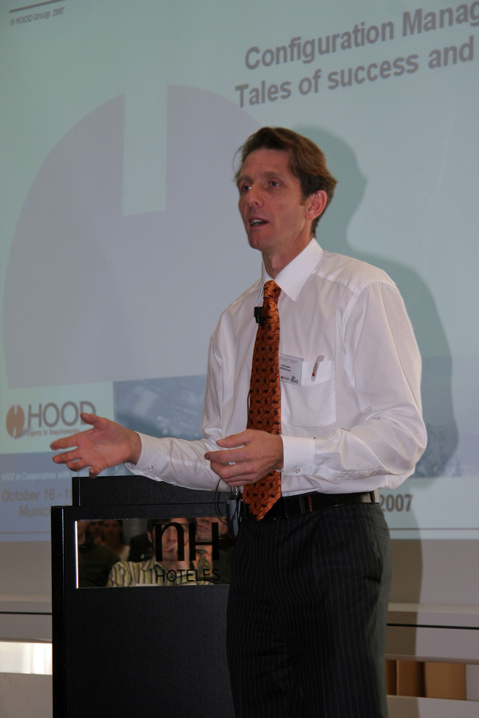 Collin Hood opens the conference. Colin Hood is manager from HOOD Group - Experts in Requirements - Helping you to help yourself